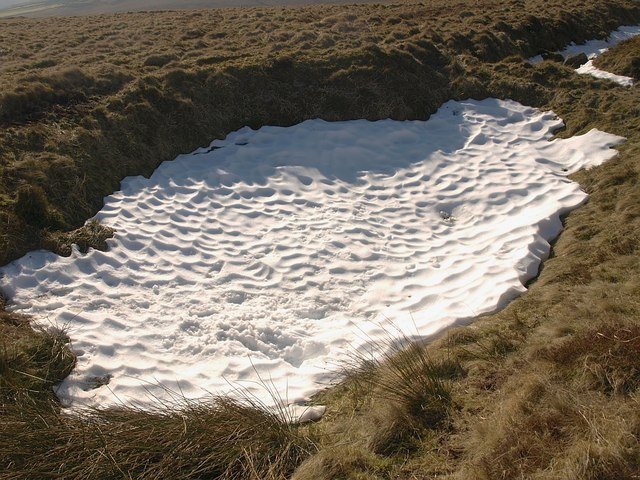 Snow field near Gibby Beam. A miniature snow field in a rounded section of old tin working. This is on the other side from 1182120 of the ridge track linking Snowdon and Puper's Hill.